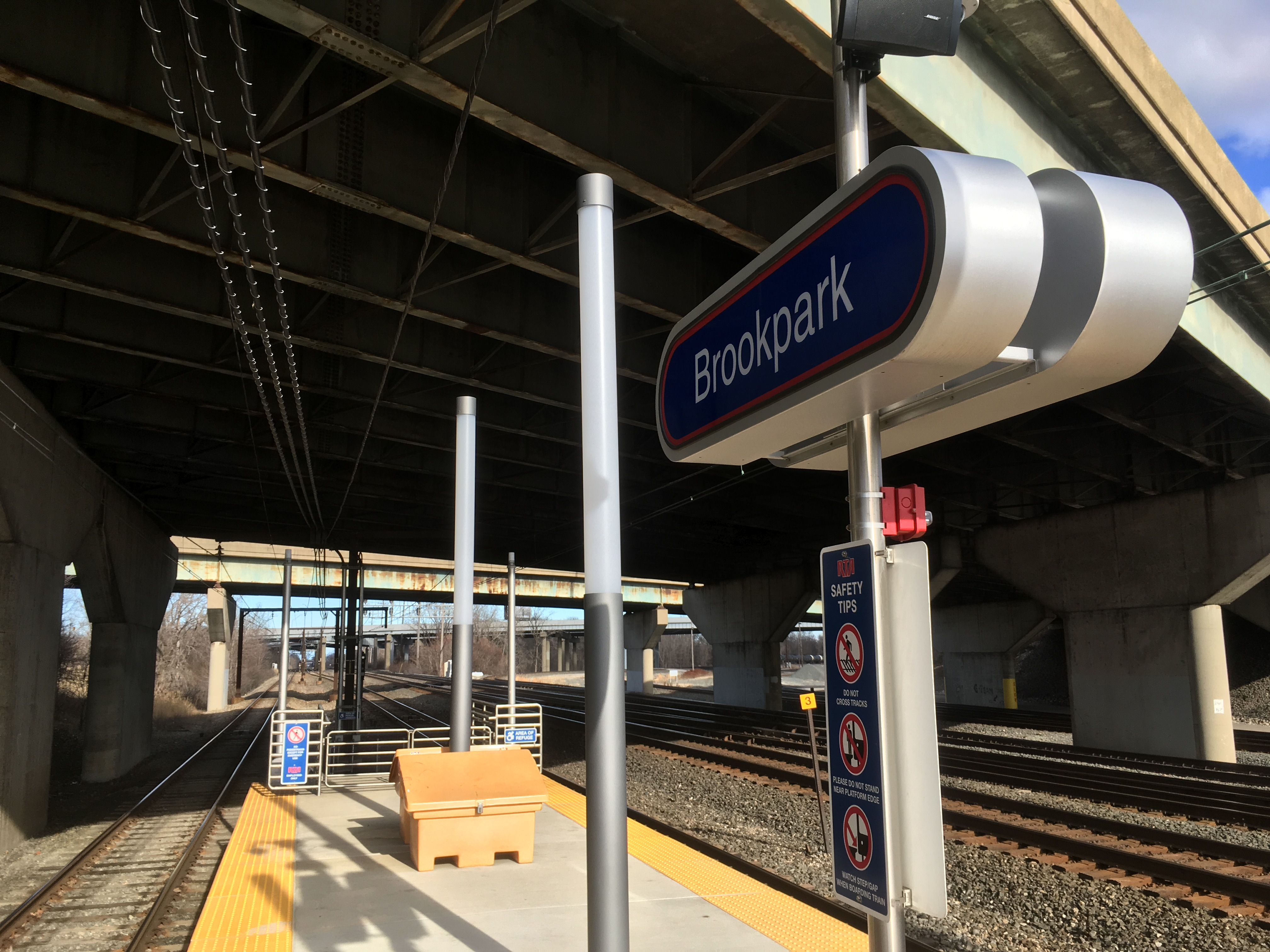 Brookpark station